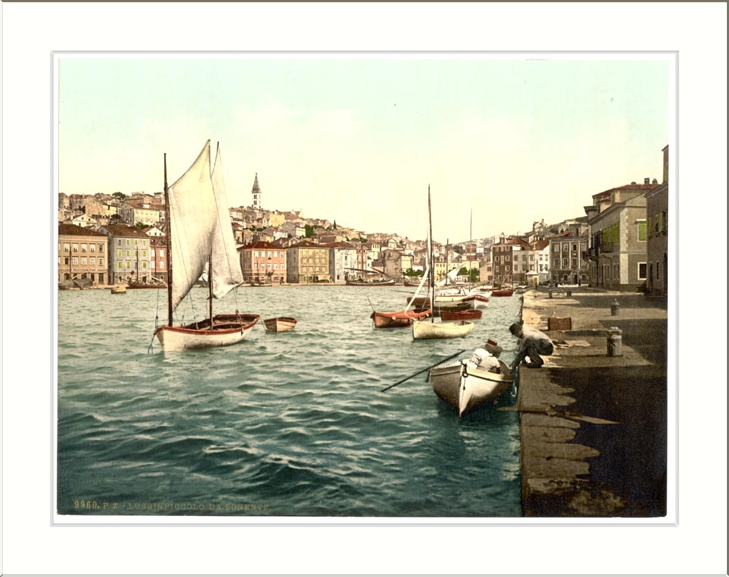 Lussin-Piccolo (i.e Lussinpiccolo) from the west Istria Austro-Hungary